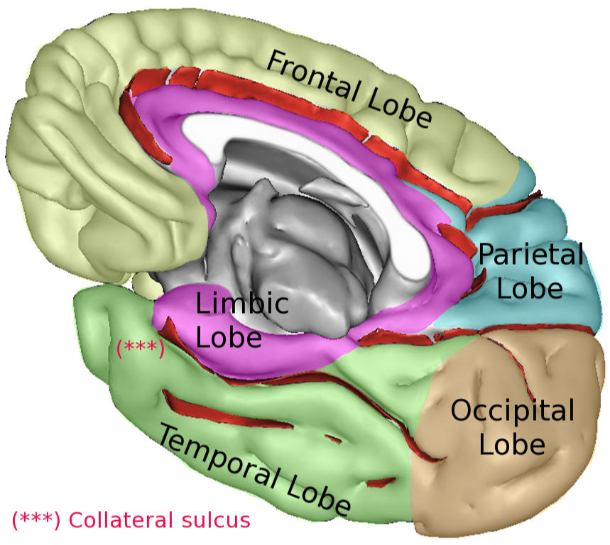 Brain lobes, main sulci and boundaries